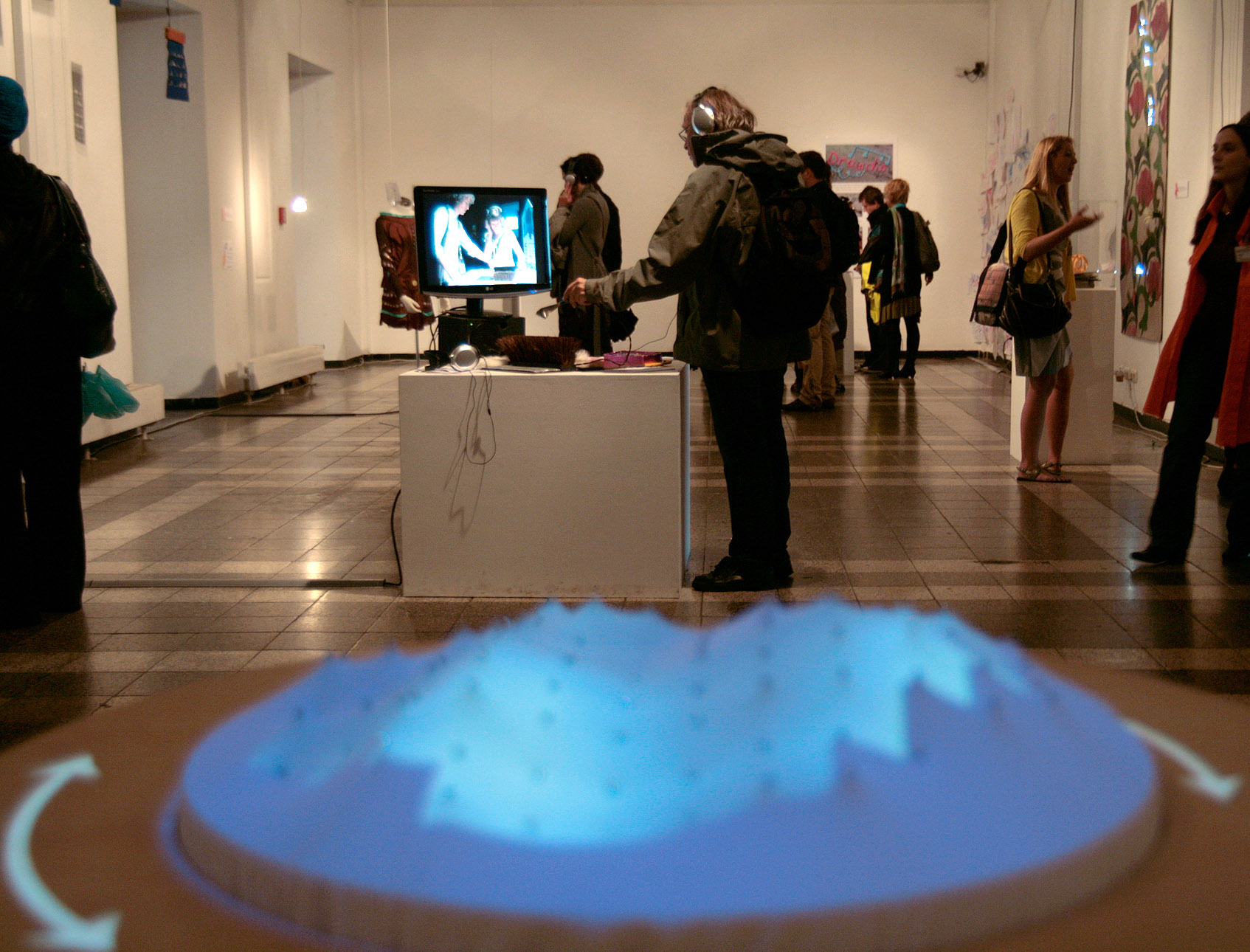 IMPETUS: Exhibition of the MIT Media Lab at the University of Arts and Industrial Design in Linz during the Ars Electronica Festival 2009.